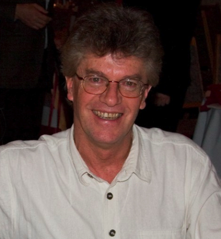 Portrait